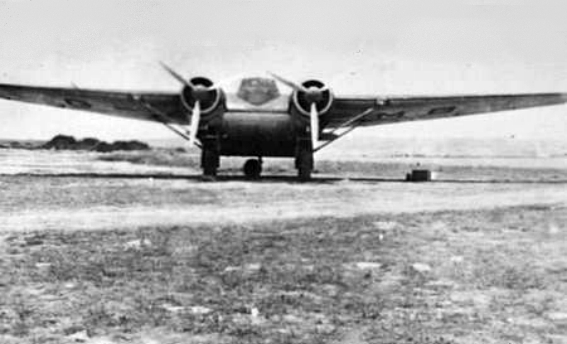 Head-on view of the single produced Cunliffe-Owen OA-1 airliner in Egypt.